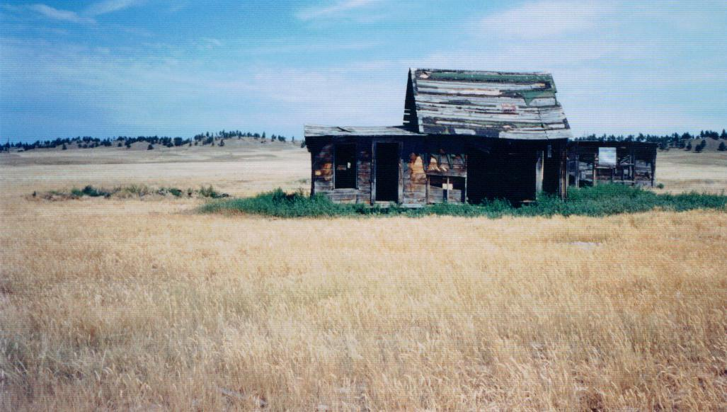 Abandoned cabin in the southern Black Hills of South Dakota. Also on Panoramio with CC BY-SA 3.0 license. This cabin is on Custer County Route 715, Pilger Mountain Road, near the intersection of Dewey Road (Custer County Road 769).